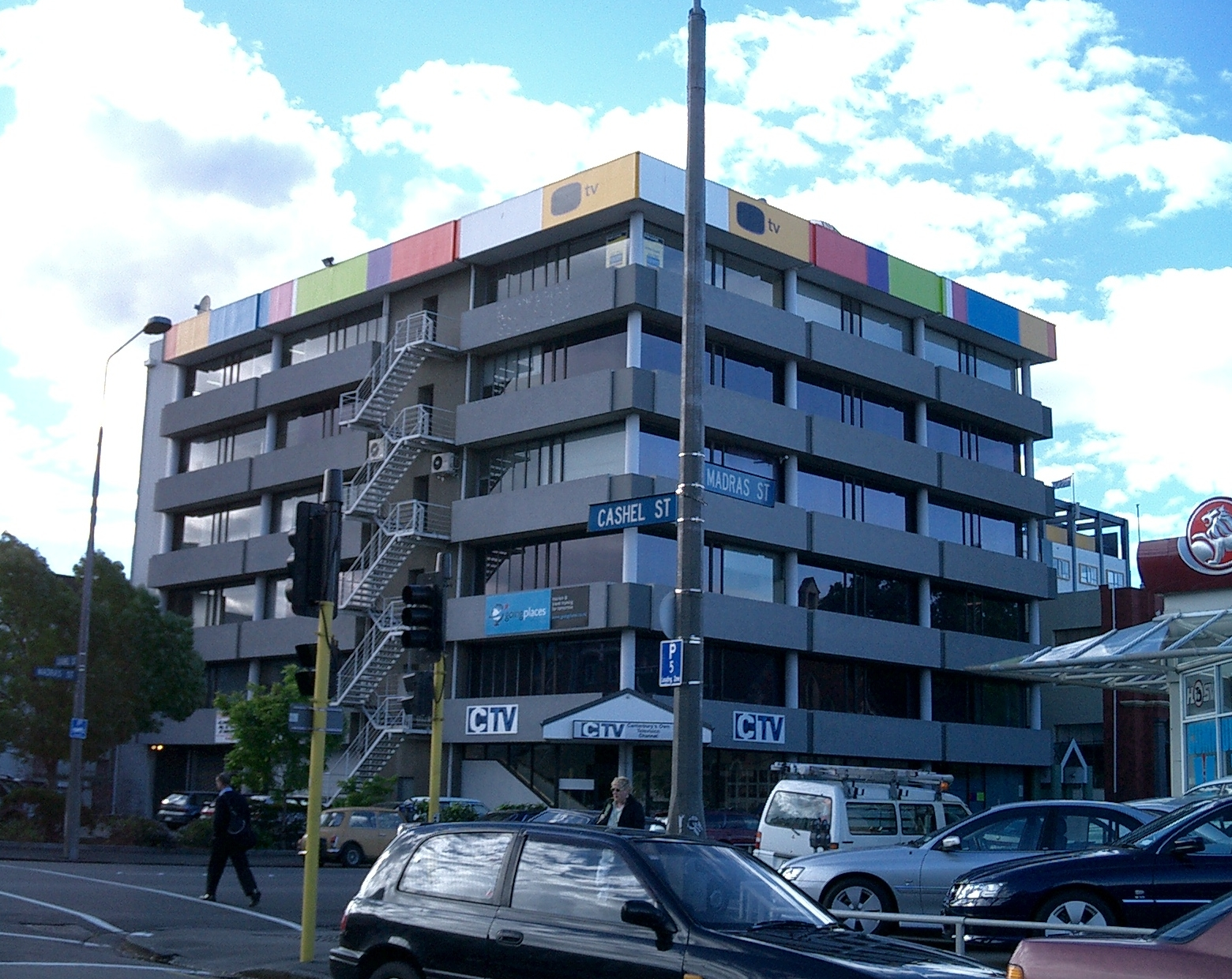 I took this photo of the CTV building in Christchurch, New Zealand, back in 2004, and posted it to my blog. In the earthquake of 22 February 2011, the building collapsed and killed over 90 people :( The low res version of this picture I posted on my blog has been reposted by various news outlets and blogs. Here's the full size version for anyone to use. Click the magnifying glass icon above and select 'Original' to get the best available copy. You are welcome to use this picture on your own site or publication as long as you add a note crediting me (Phillip Pearson) as the photographer. I'd appreciate it if you could drop me a line, or comment here, to let me know.